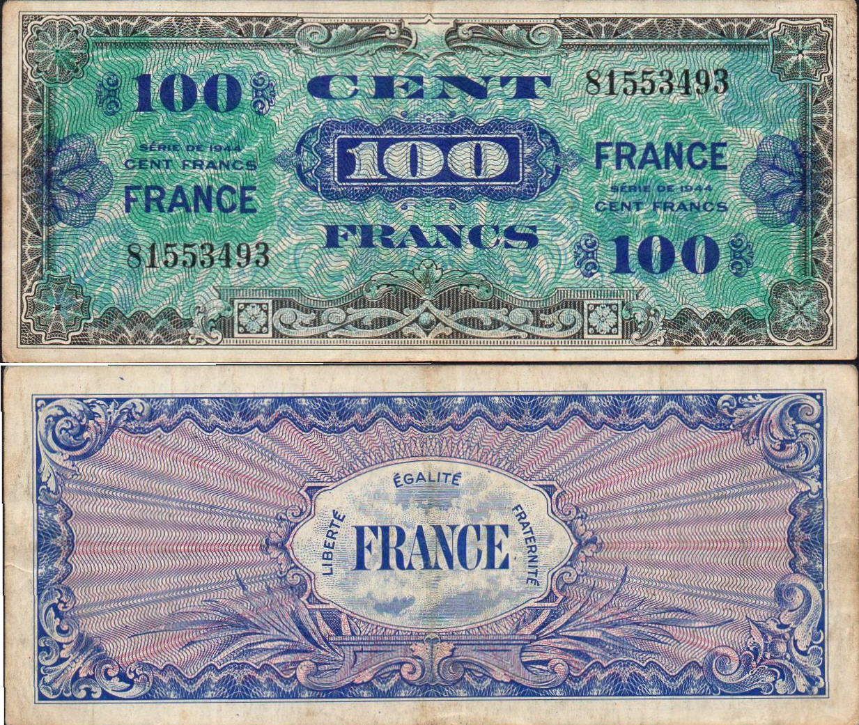 100 Franc